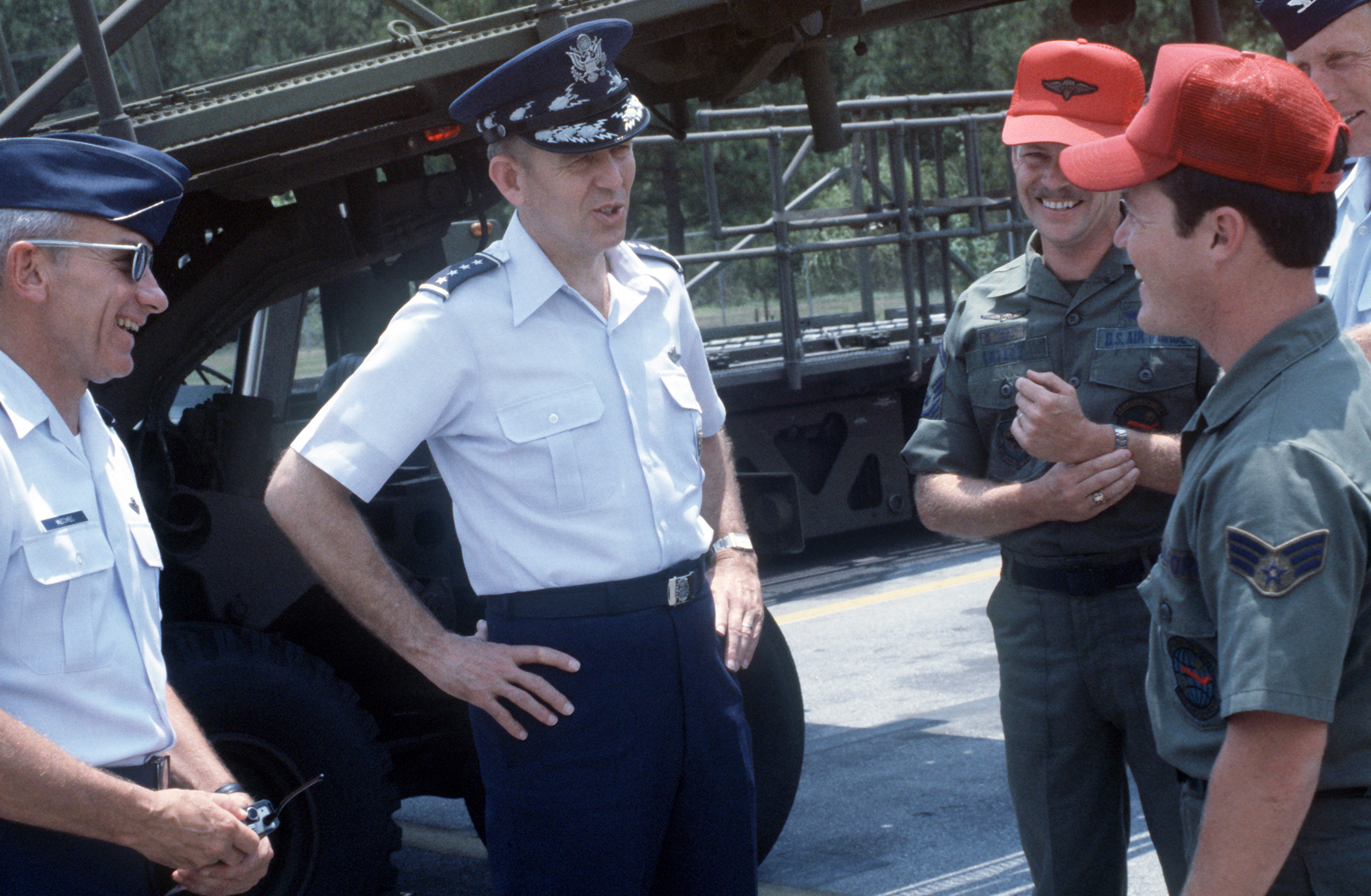 Commanders-in-Chief of the Strategic Air Command General Larry D. Welch talks with Strategic Air Command personnel during a visit to Barksdale Air Force Base, Louisiana 1985